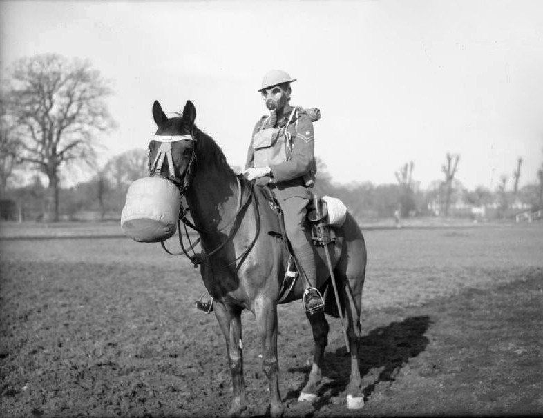 The British Army in the United Kingdom 1939-45 A mounted lance corporal of the Household Cavalry wearing a gas mask, Windsor, 1939. His horse is also wearing a gas mask.